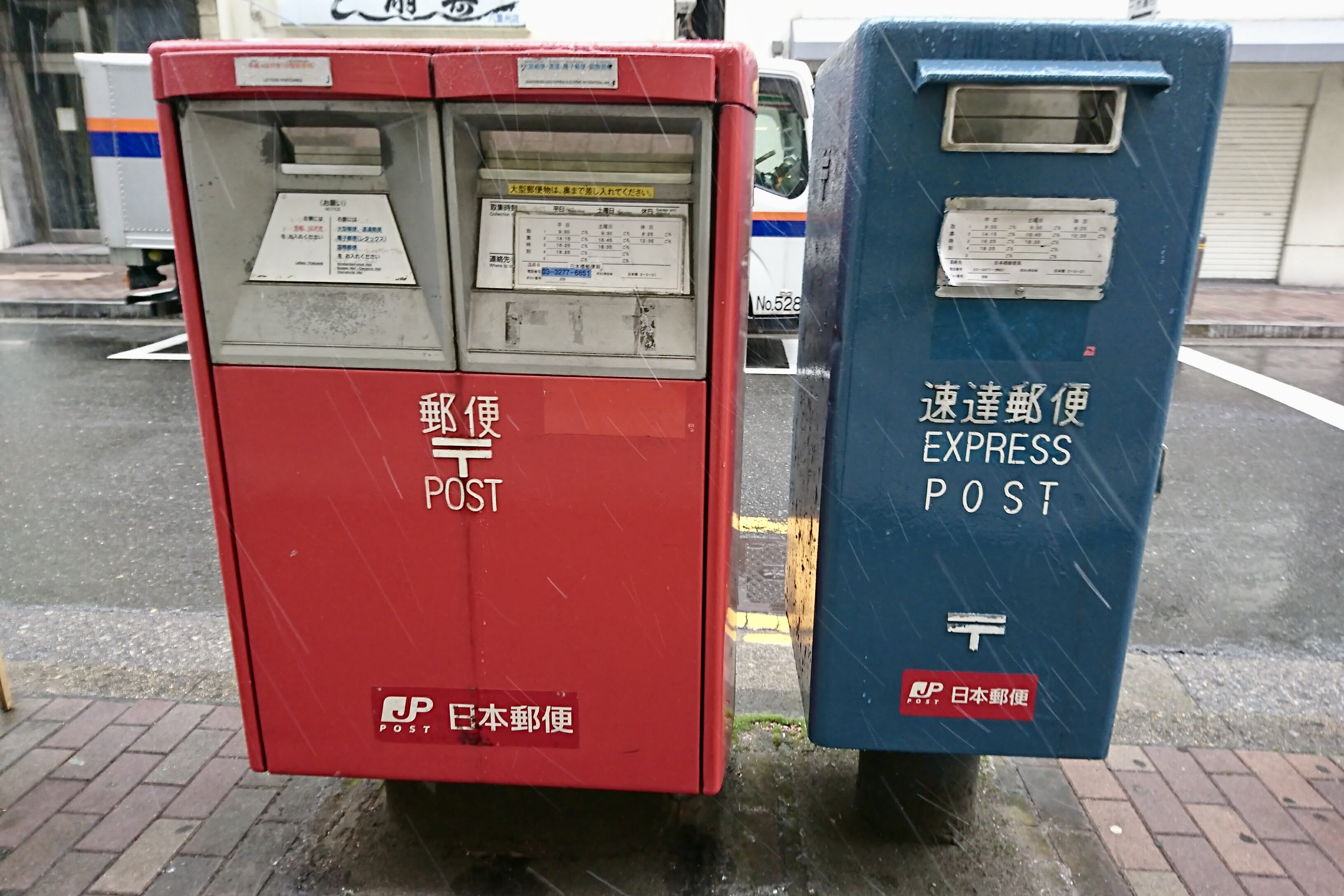 The postbox on the right side is for express delivery.